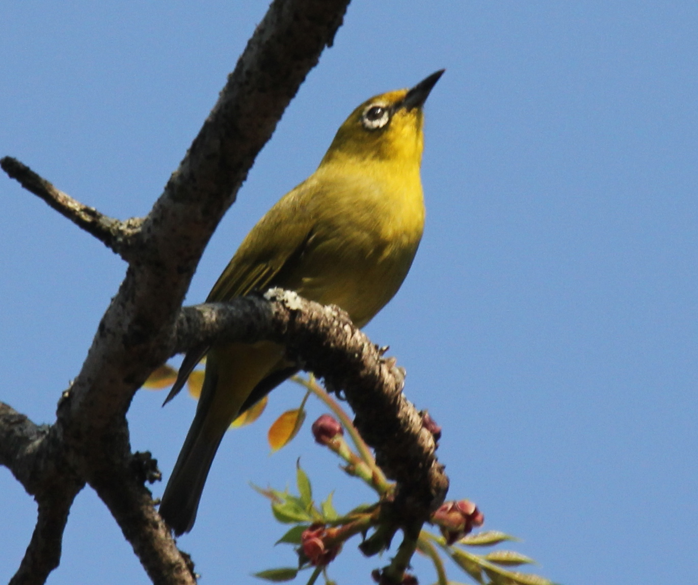 African Yellow White-eye (Zosterops senegalensis) near Kruger National Park, South Africa